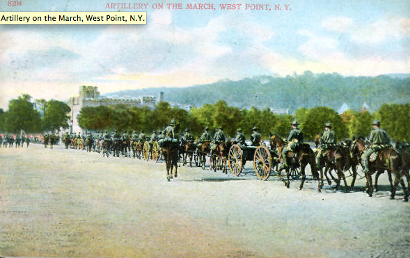 West Point Cadets performing summer training on the Plain at West Point